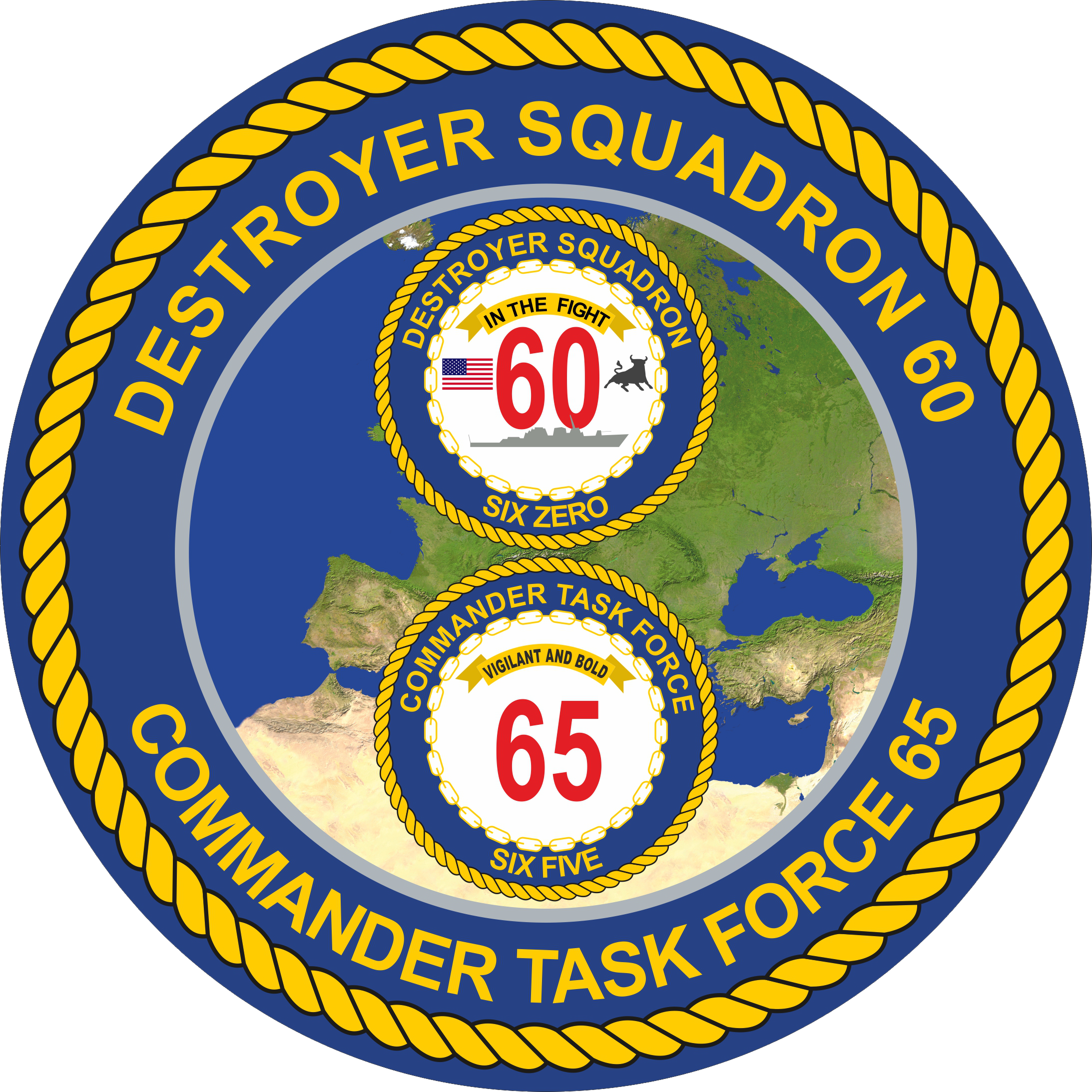 Insignia of the U.S. Navy Destroyer Squadron 60 (DESRON 60).